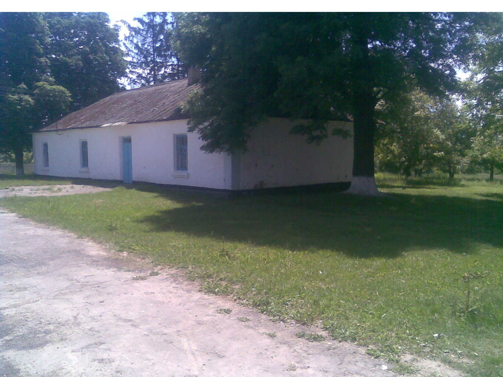 Чотирирічна школа